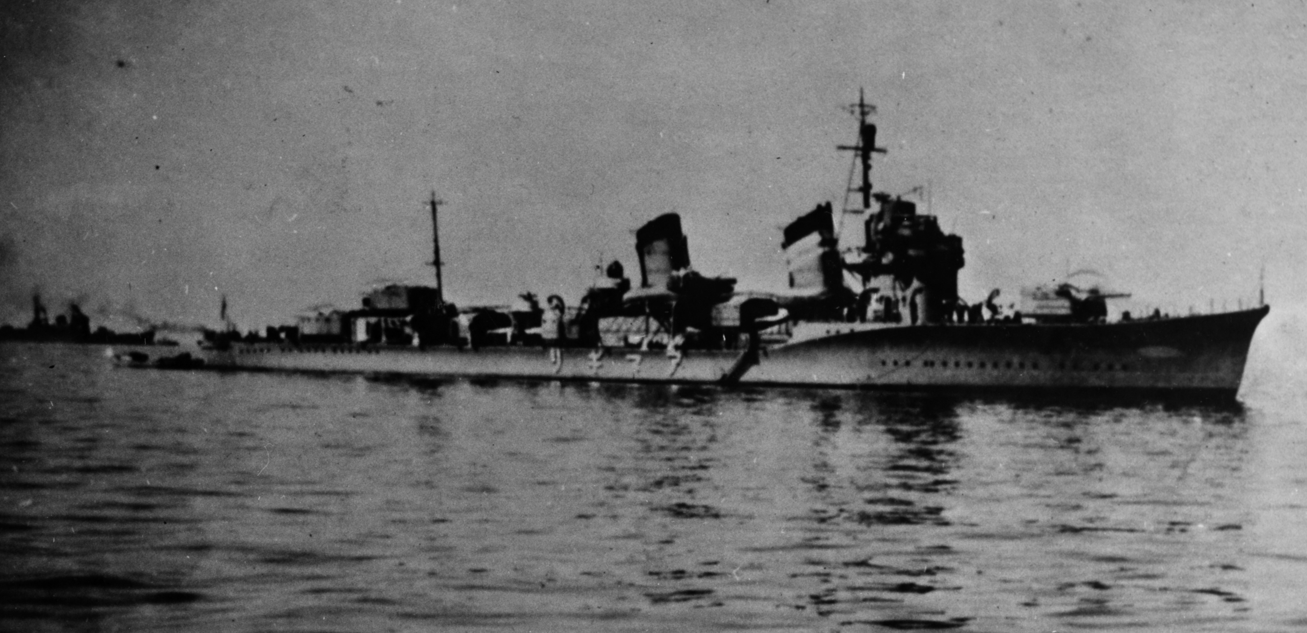 HIJMS Destroyer Amagiri. Removed caption read: Photo # NH 50198 Japanese destroyer Amagiri, prior to World War II Myoko-class heavy cruiser in the background.